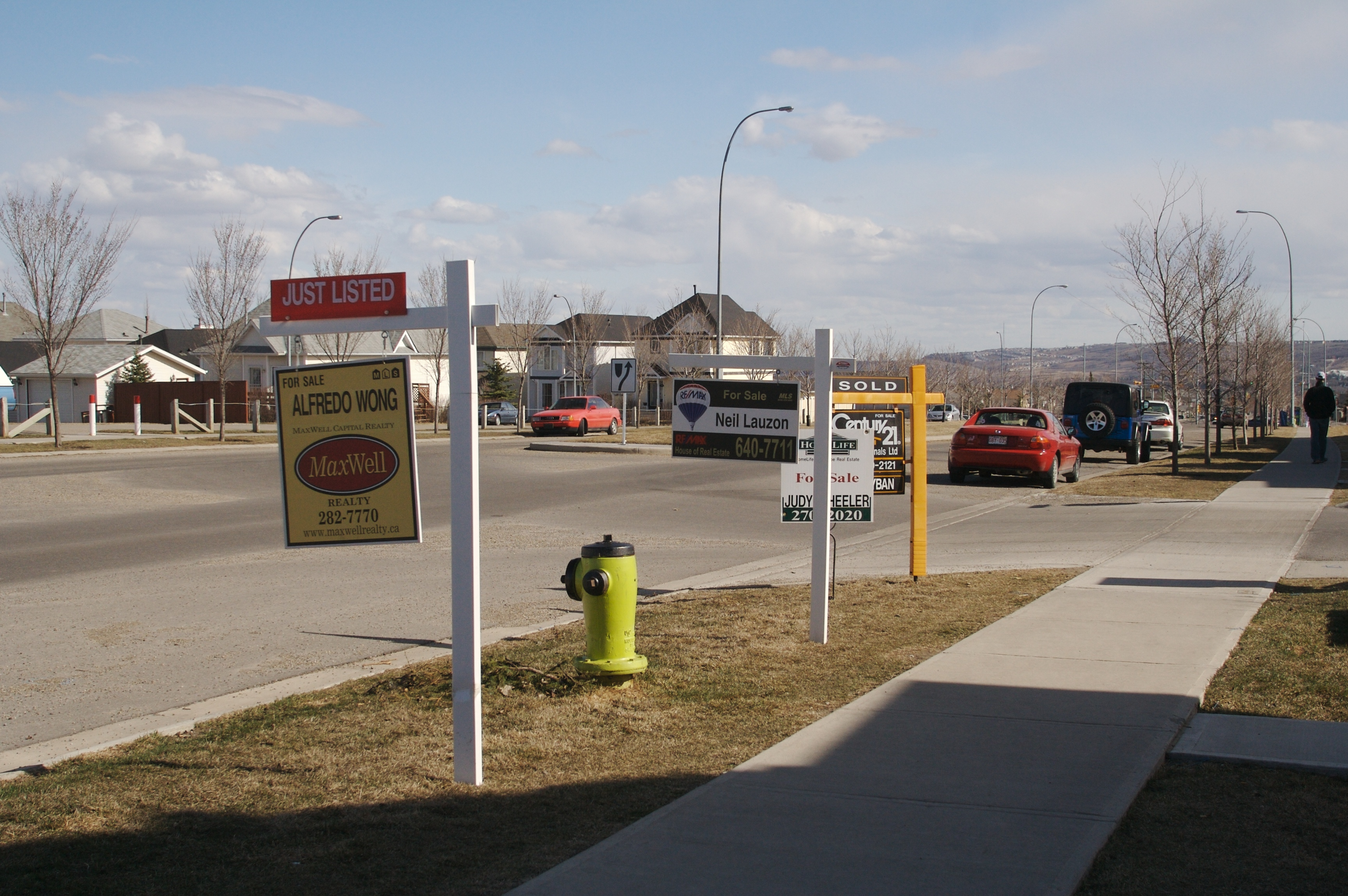 For sale signs in Tuscany